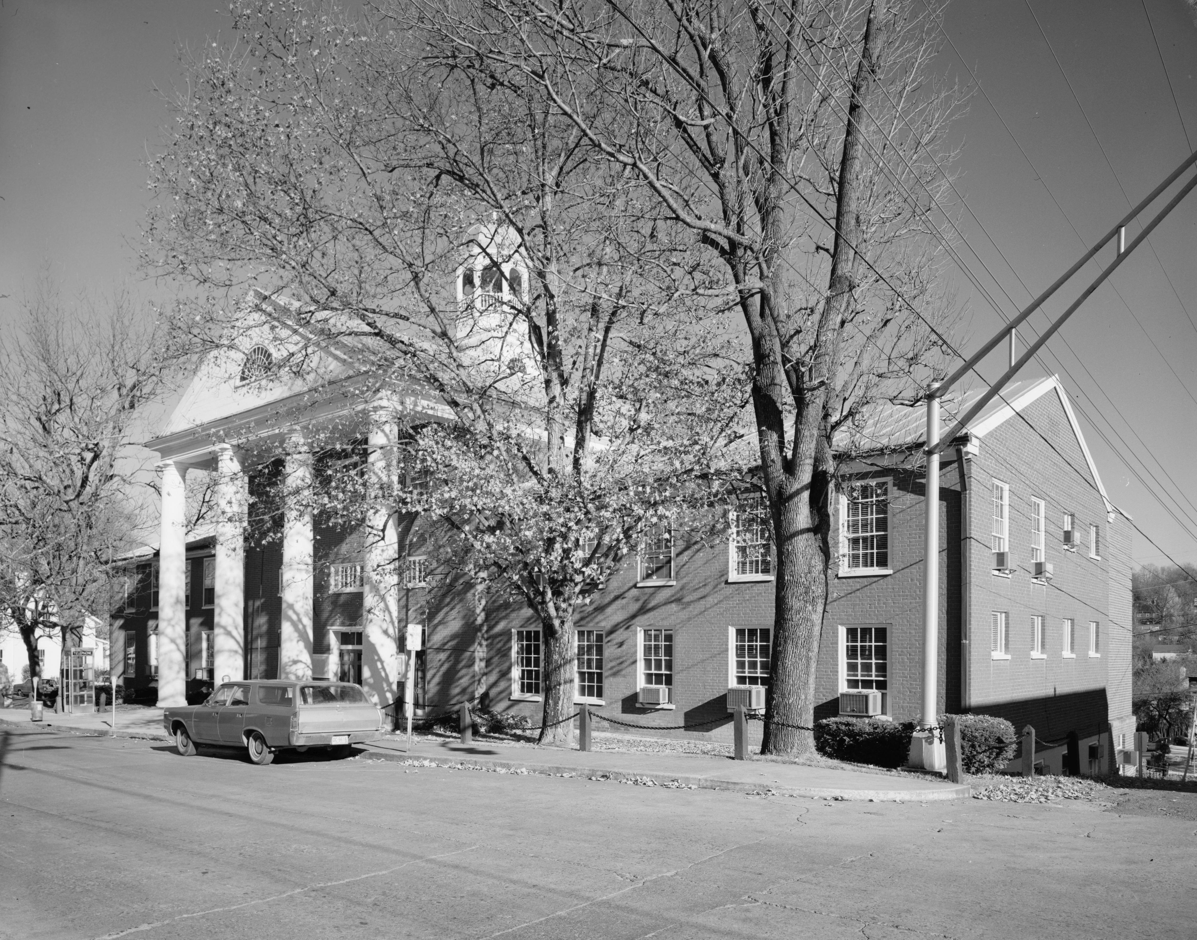 Front of the Greenbrier County Courthouse, located at the intersection of Court and Randolph Streets in Lewisburg, West Virginia, United States. Built in 1837, it is listed on the National Register of Historic Places.